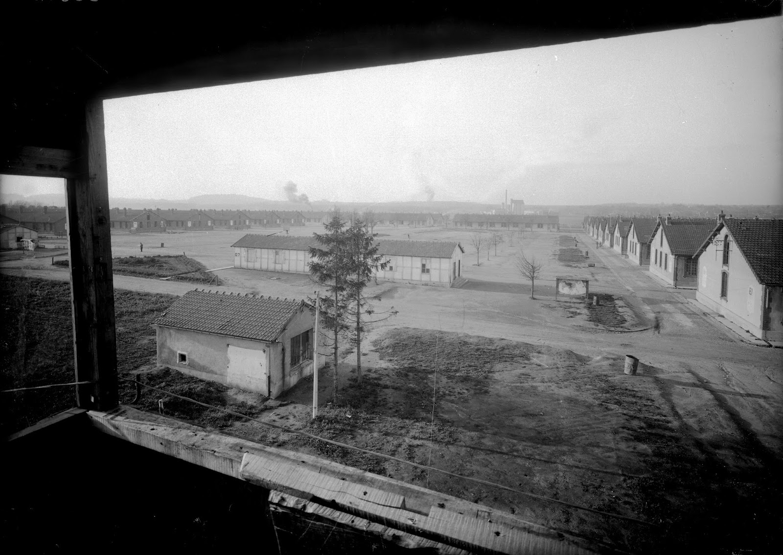 War-era view of Compiégne Camp from a guard tower